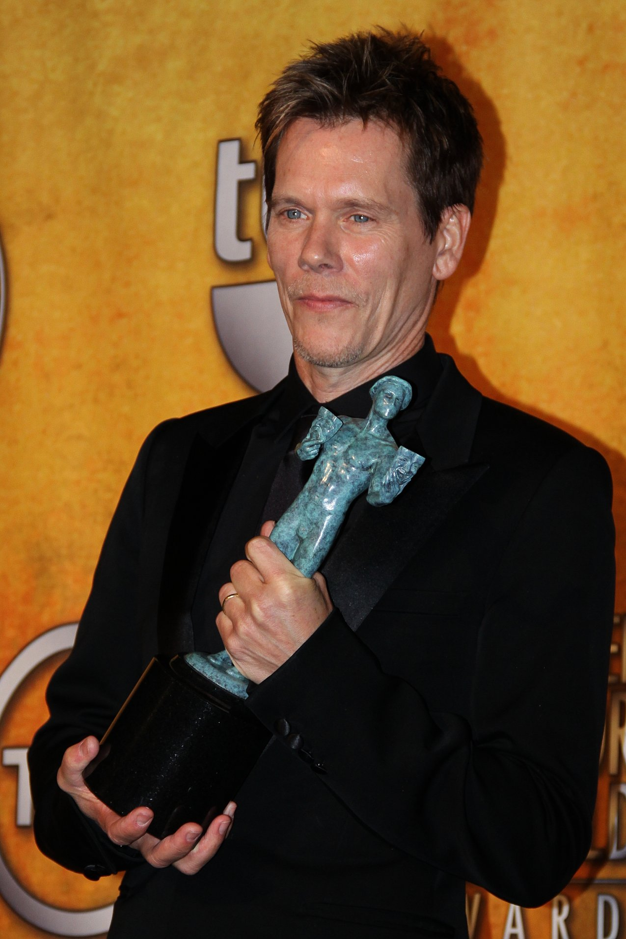 Kevin Bacon at the Screen Actors Guild Awards, Shrine Auditorium, Los Angeles, on January 23rd, 2010.